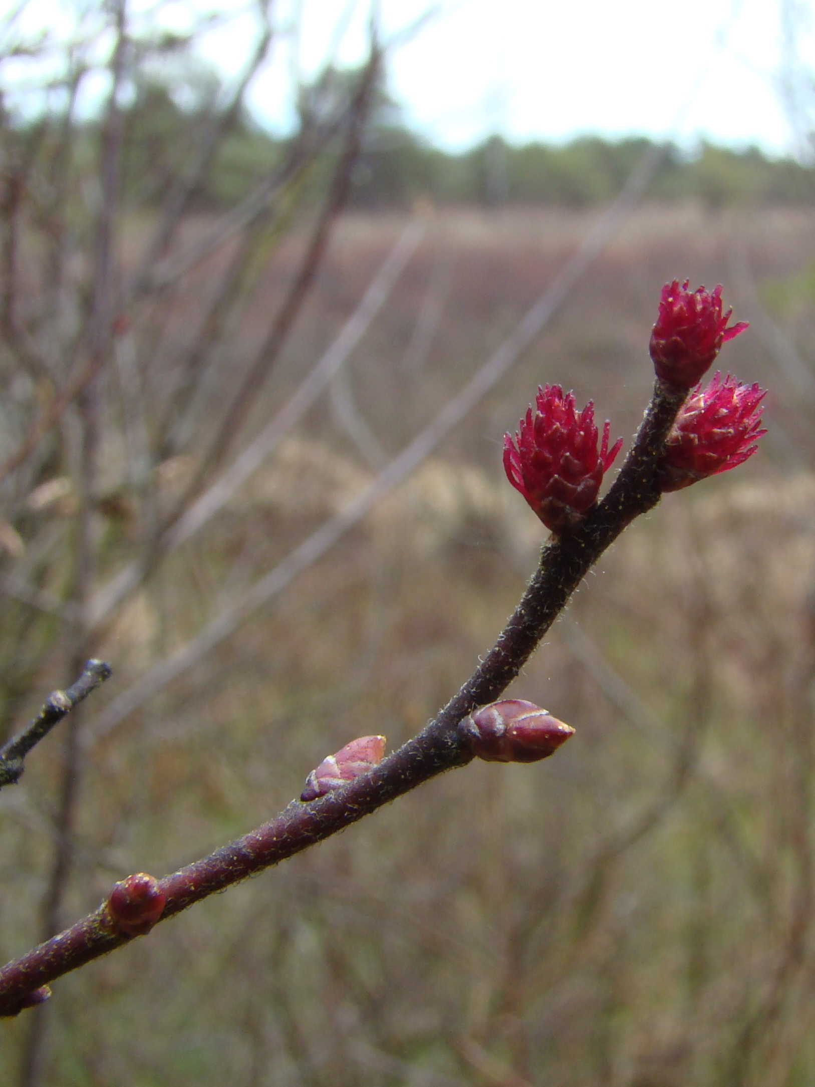 Myrica gale: Female plant, Bornrieth Moor, Lower Saxony, Germany